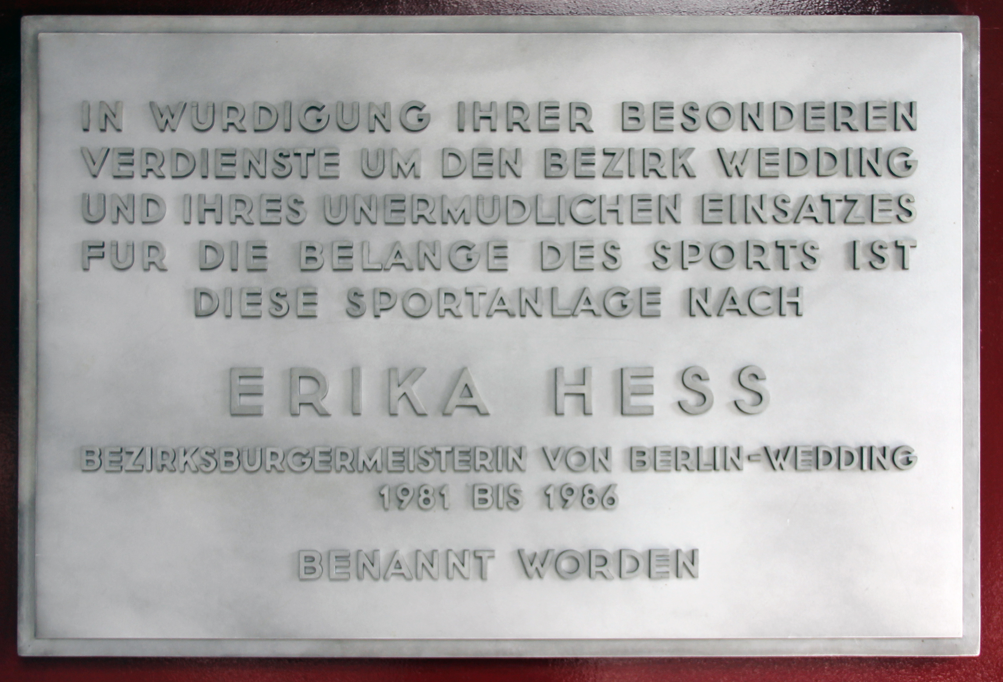 Memorial plaque, Erika Hess, Müllerstraße 185, Berlin-Wedding, Germany